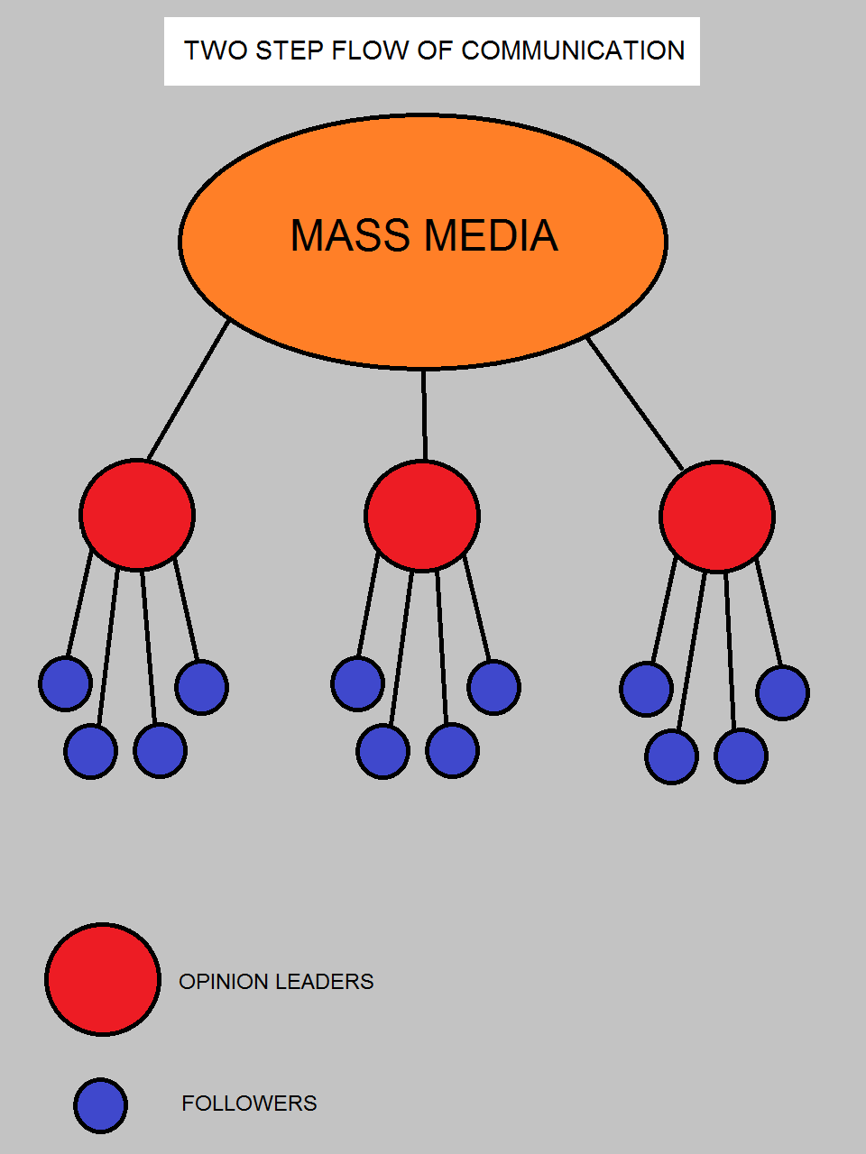 This is the two step flow of communication, a model explaining how new info got from the mass media to general public, created in the 1940's by Lazarsfeld and his colleagues.